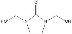 the molecular stucture of dimethylol ethylene urea